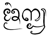 Lanna script – Omkoi is the southwesternmost district (amphoe) of Chiang Mai Province in northern Thailand.